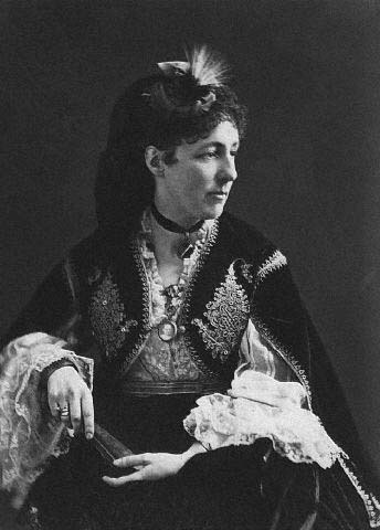 Archduchess Elisabeth Franziska of Austria (1831-1903).